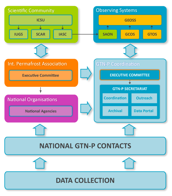 Framework of GTN-P Management Structure